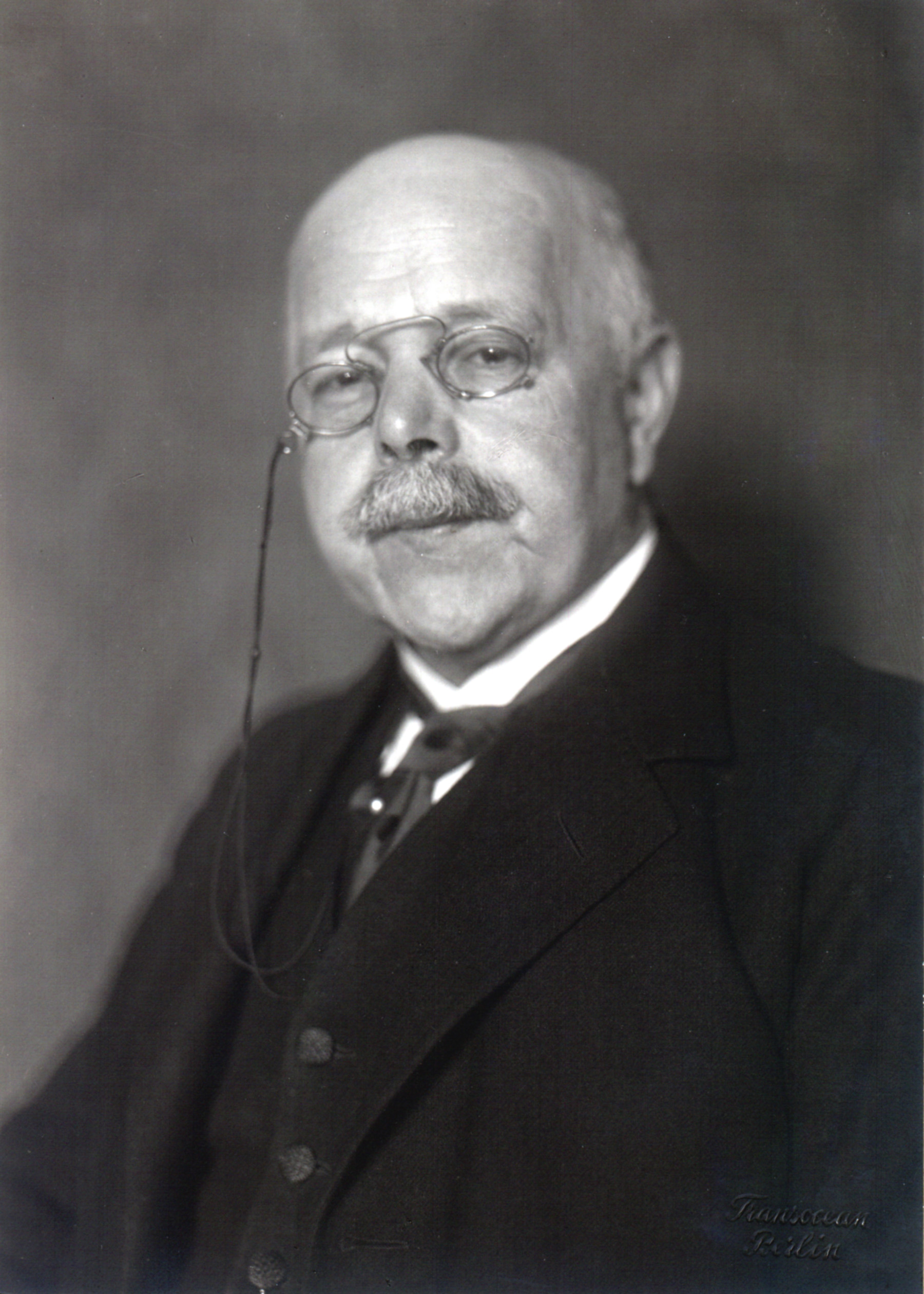 Creator/Photographer: Unidentified photographer Medium: Medium unknown Dimensions: 16.2 cm x 11.4 cm Date:Prior to 1941 Collection: Scientific Identity: Portraits from the Dibner Library of the History of Science and Technology - As a supplement to the Dibner Library for the History of Science and Technology's collection of written works by scientists, engineers, natural philosophers, and inventors, the library also has a collection of thousands of portraits of these individuals. The portraits come in a variety of formats: drawings, woodcuts, engravings, paintings, and photographs, all collected by donor Bern Dibner. Presented here are a few photos from the collection, from the late 19th and early 20th century. Persistent URL: [1] Accession number: SIL14-N001-08